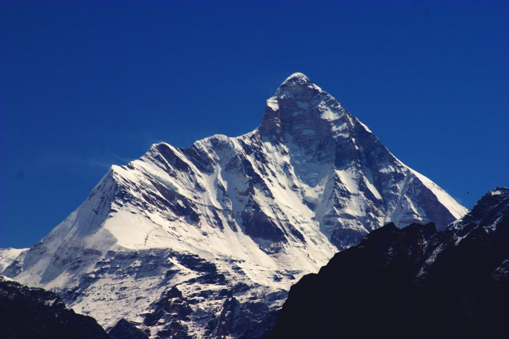 Mt Nanda Devi 23rd Highest peak